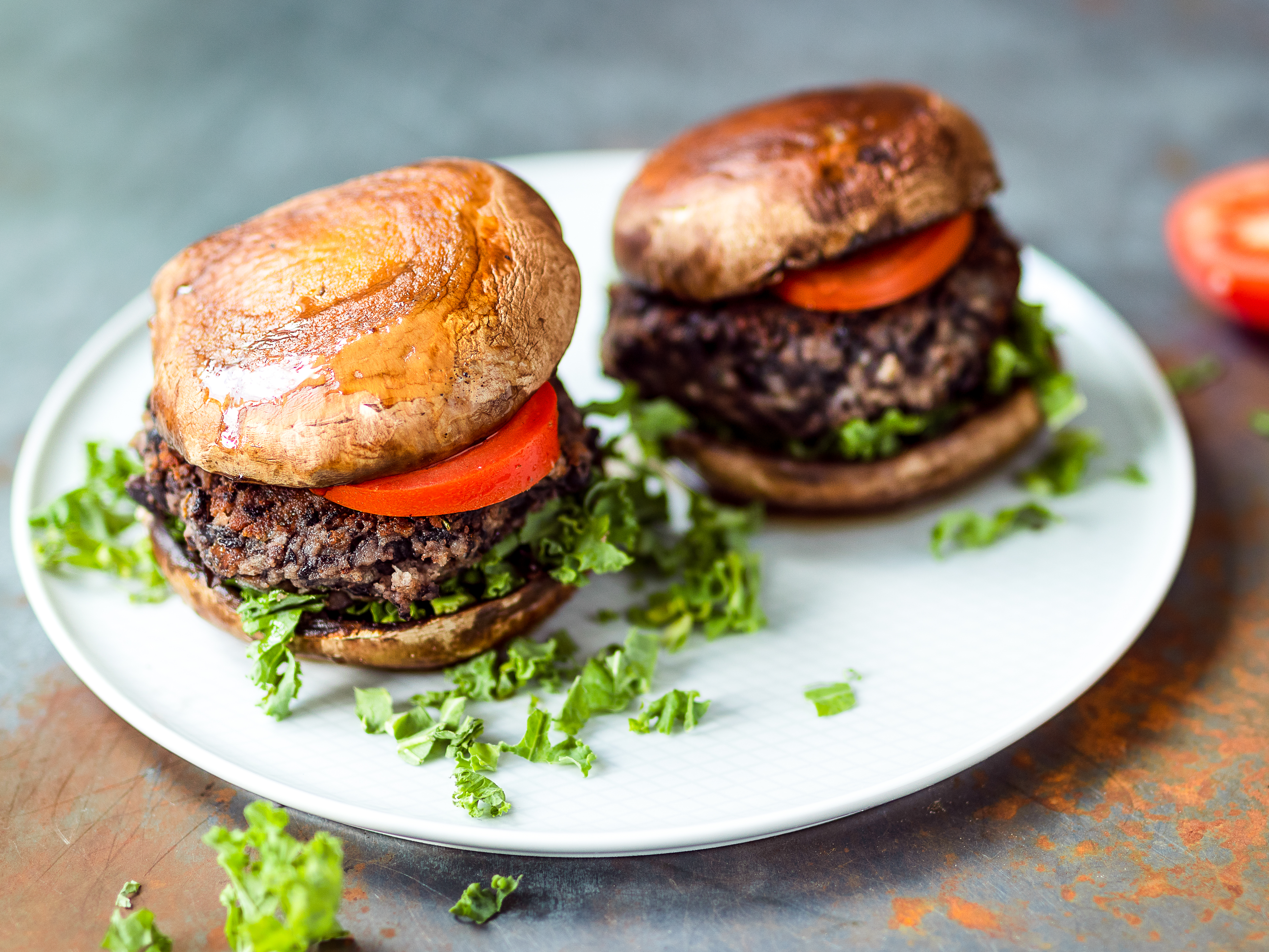 Portobello mushroom make a juicy alternative to bread buns!